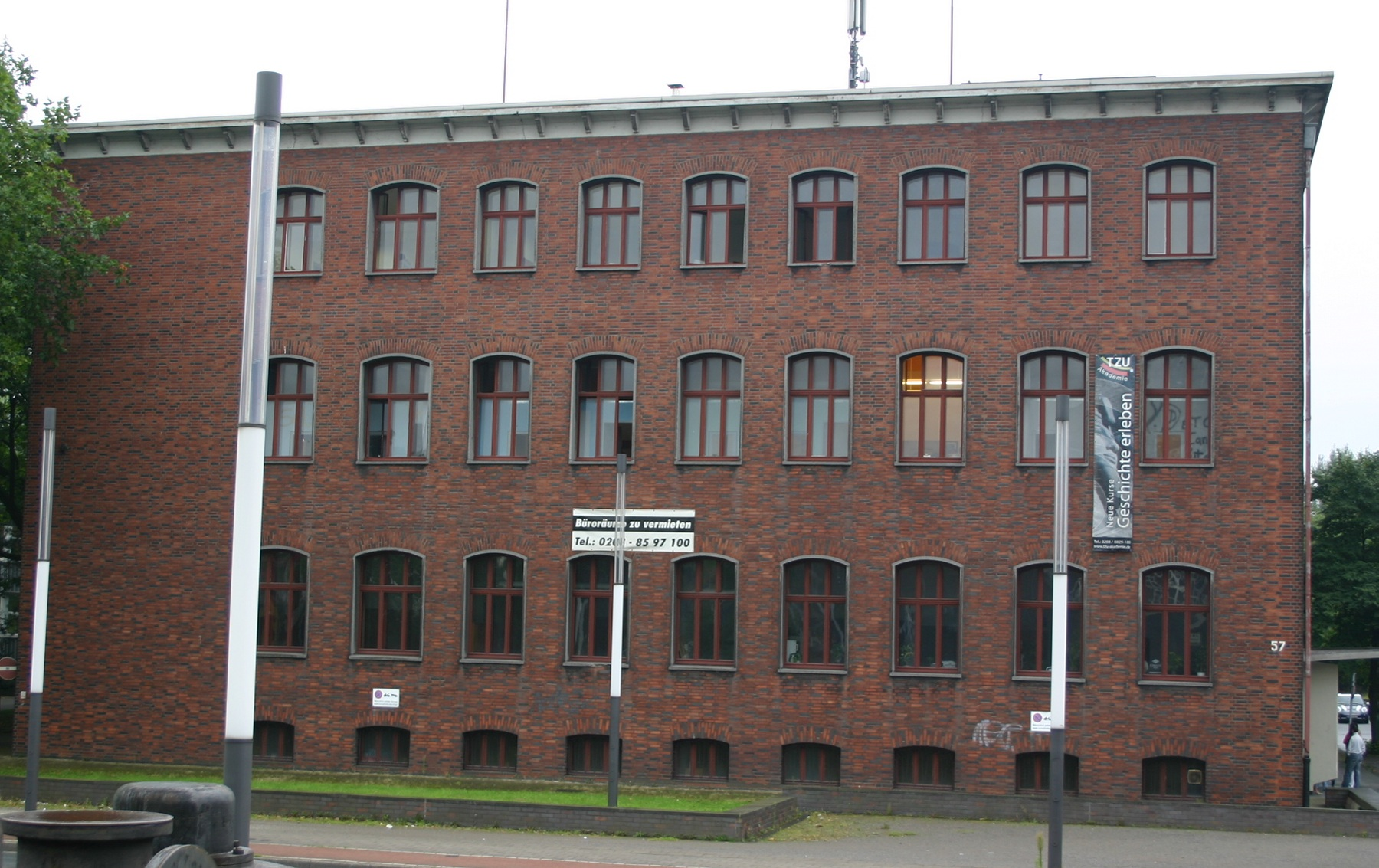 Former administration of the Gutehoffnungshuette in Oberhausen (Germany) second building